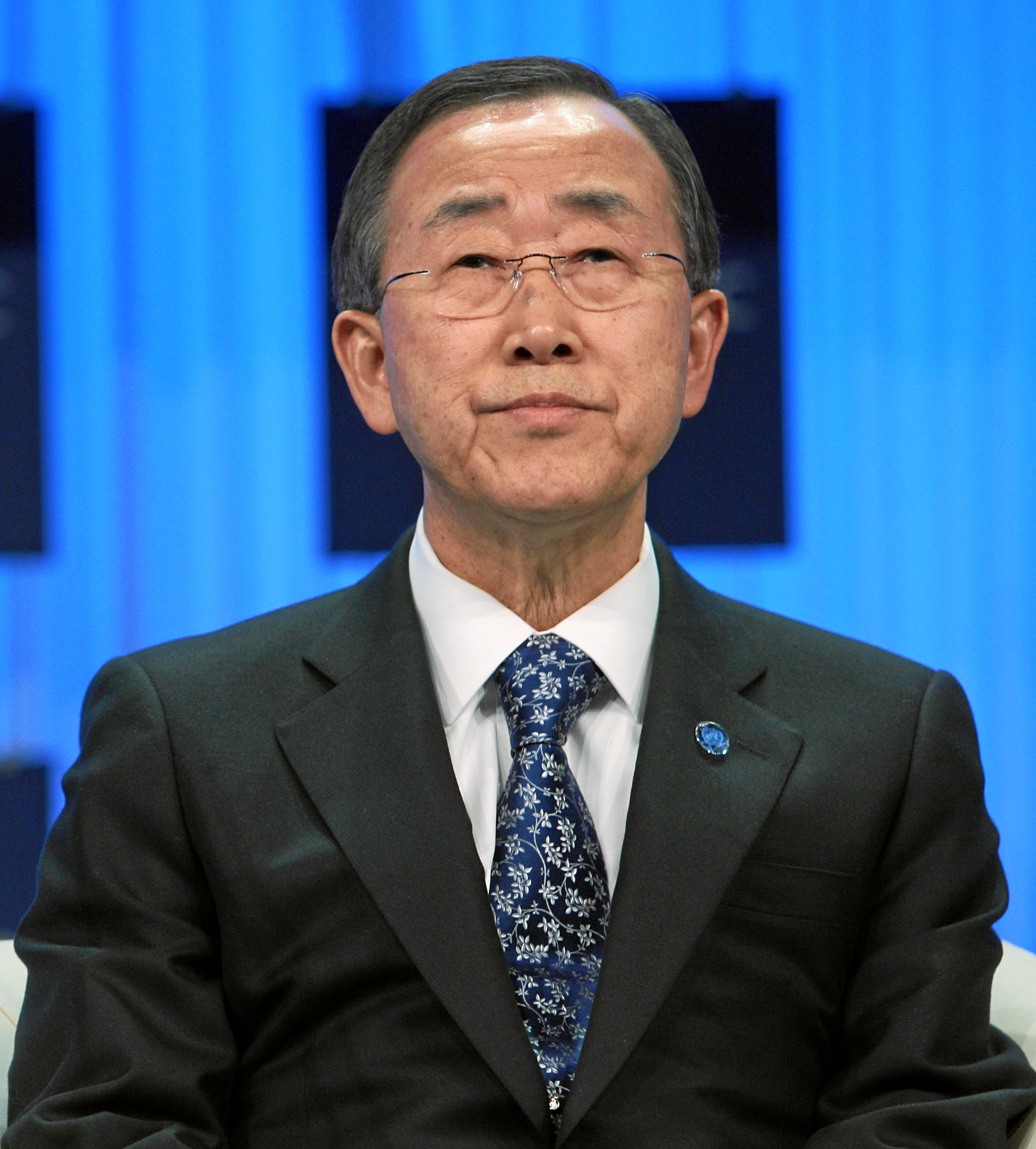 Ban Ki-moon, Secretary-General, United Nations, New York looks on during the session 'Combating Chronic Disease' at the Annual Meeting 2011 of the World Economic Forum in Davos, Switzerland, January 27, 2011.